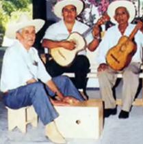 Guerrero (Mexico) state musicians. Cajón de tapeo, guitar and vihuela